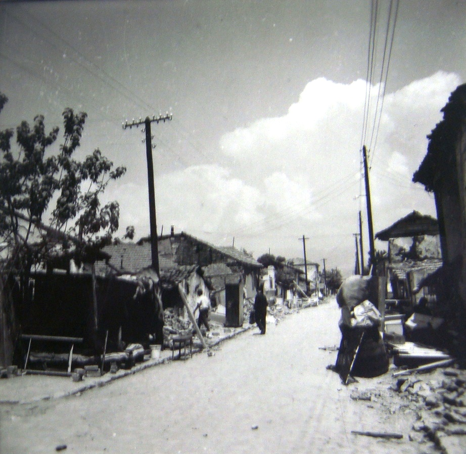 1963 Skopje earthquake: Damaged residential buildings and other facilities around the Bit Pazar This media file is produced by Wikipedian in Residence in Category:Wikipedian in Residence at DARM in 2016.